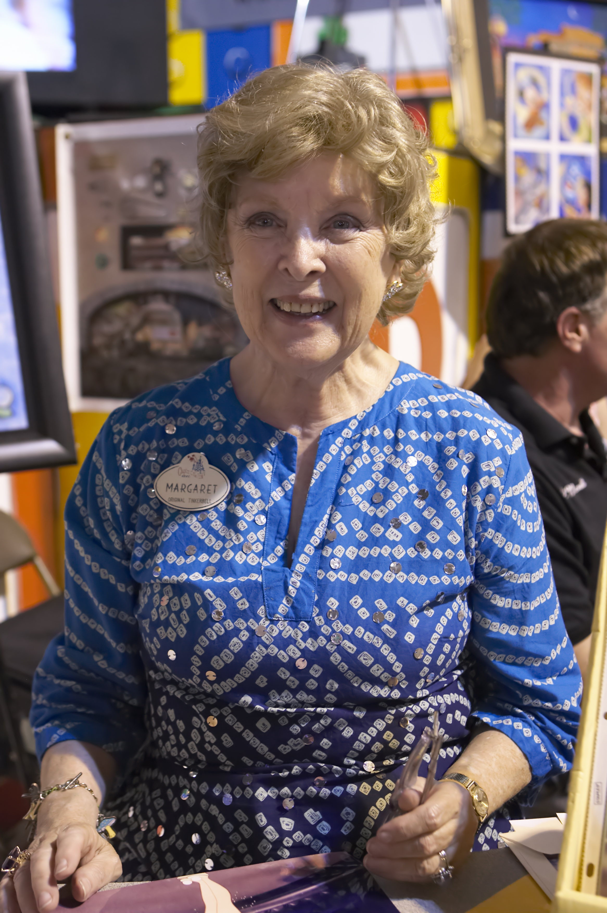 Margaret Kerry, the model for Disney's Tinker Bell, signing autographs at the California Exposition and State Fair in Sacramento.